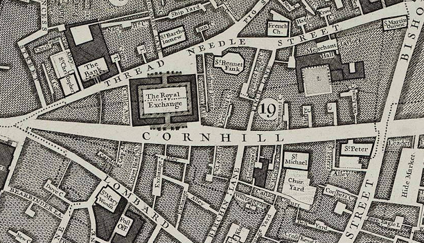 John Rocque's Map of London - 1746